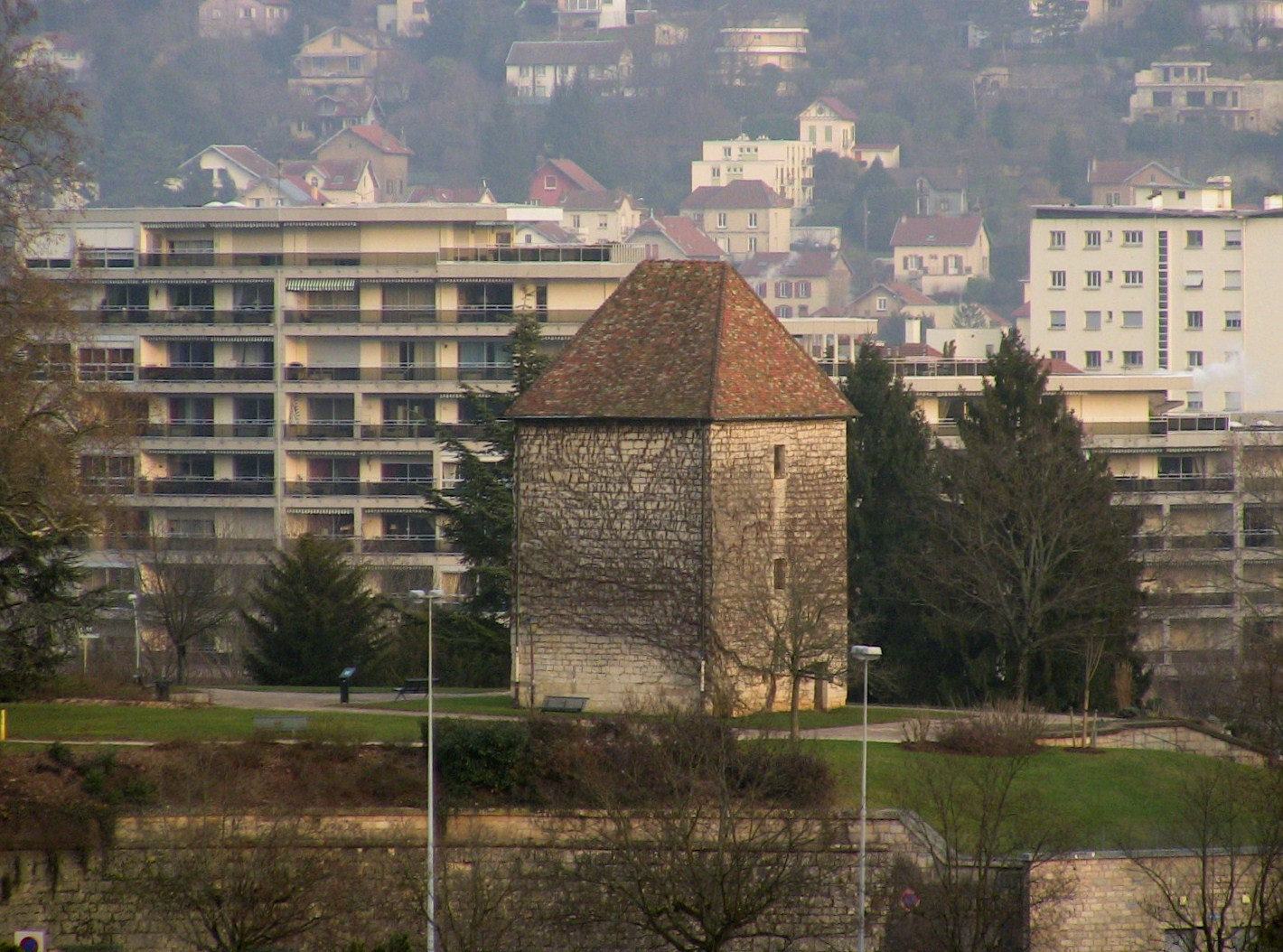 Montmart tower, in Besançon (Doubs, France).